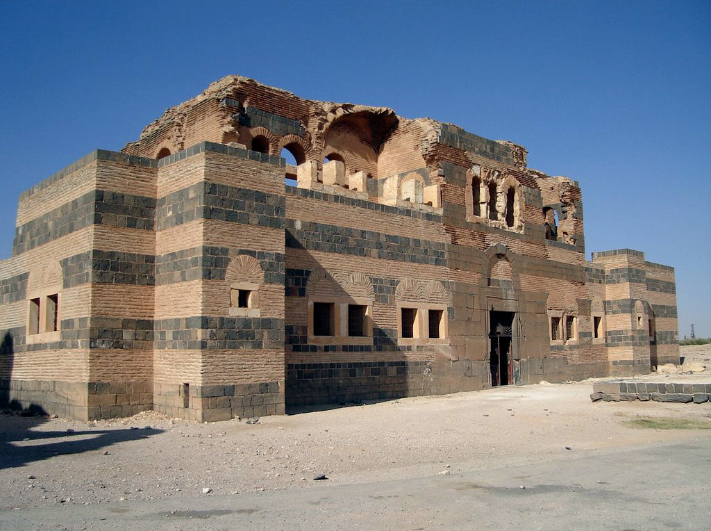 Qasr ibn Wardan is a 6th century castle complex located in the Syrian desert, approx. 60km northeast from Hama. The complex of a palace, church and barracks was erected in the mid sixth century by the Byzantine Emperor Justinian I as a part of a defensive line (together with Rasafa and Halabiyya) against Persians. Its unique style, imported directly from Constantinople and not found anywhere else in the present day Syria, was probably chosen to impress local Beduin tribes and to consolidate control over them. Basalt was brought from somewhere far north or south from the site and marble columns and capitals are supposed to be brought from Apamea. Nothing remains of the barracks today. The palace was probably the local governor's residence as well. Its best preserved part is the southern façade of alternating bands of basalt black and brick yellow. There are remains of stables in the northern and a small bath complex at the eastern part of the palace with a central courtyard. Function of each room was indicated by a carved stone. The church (square shaped with a central nave and two side aisles) is standing just west of the palace and is architecturaly similar to it, but a bit smaller. Originally it was covered by a large dome (only a pendentive remains till today) and shows an example of a Byzantine early dome building technique. Originally three sides (only northern and southern remain) had upper floor galleries reserved for women. The fourth side is concluded by a typical Byzantine semicircular and half domed apse.